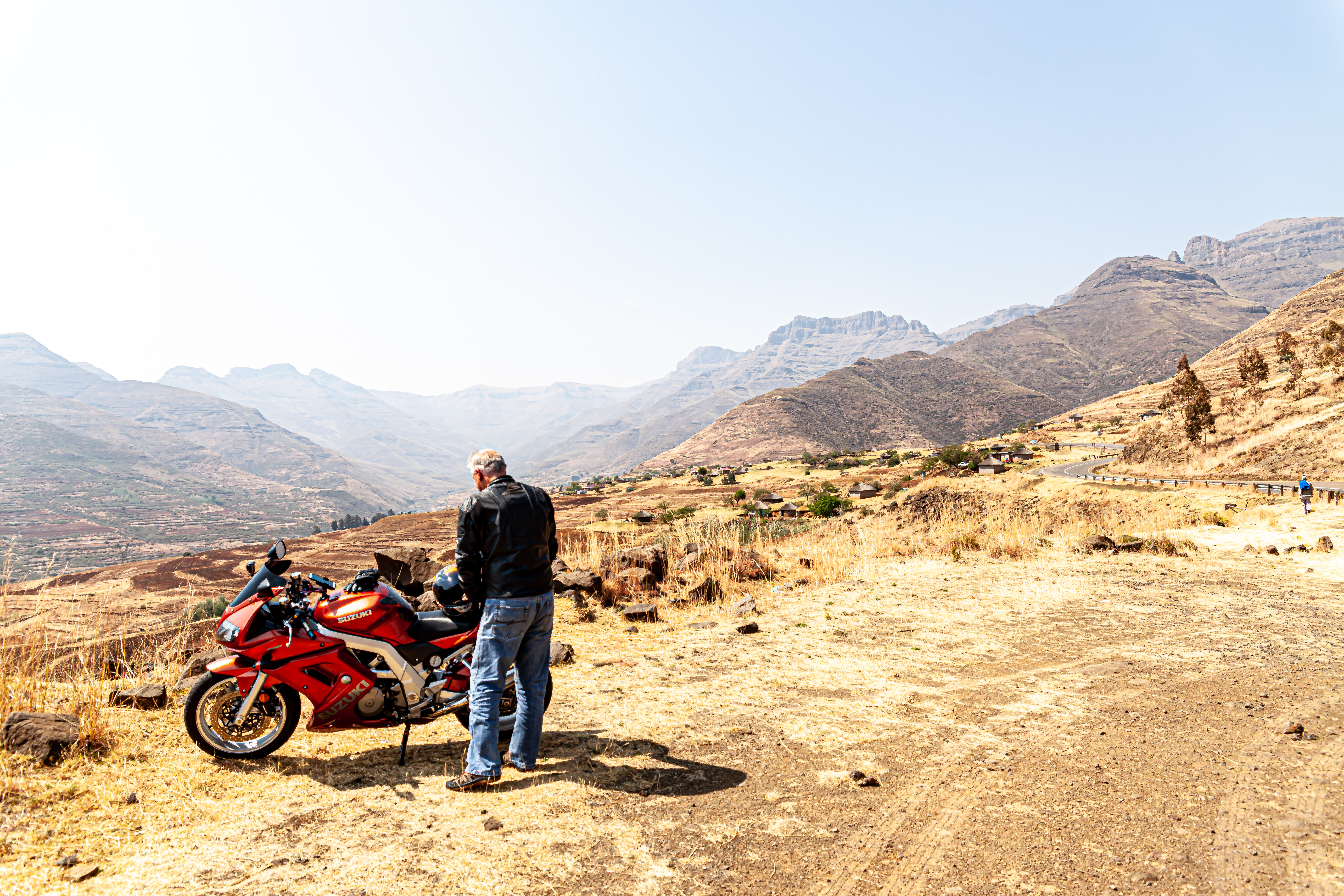 Route A3 in route to Katse between Masero in Lesto This is an image with the theme "Africa on the Move or Transport" from: Lesotho